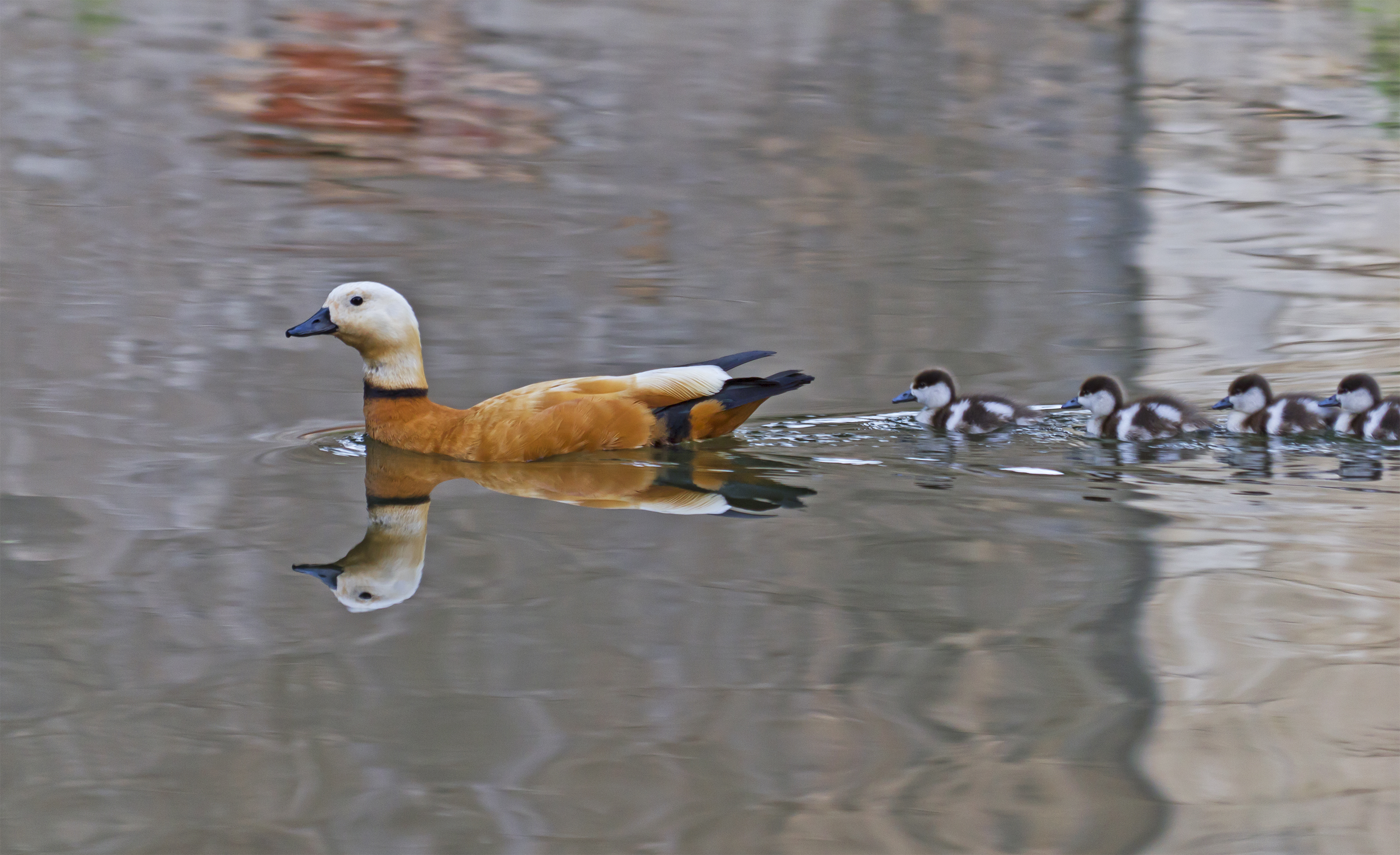 Ruddy Shelduck with ducklings in Lefortovo Park, Moscow